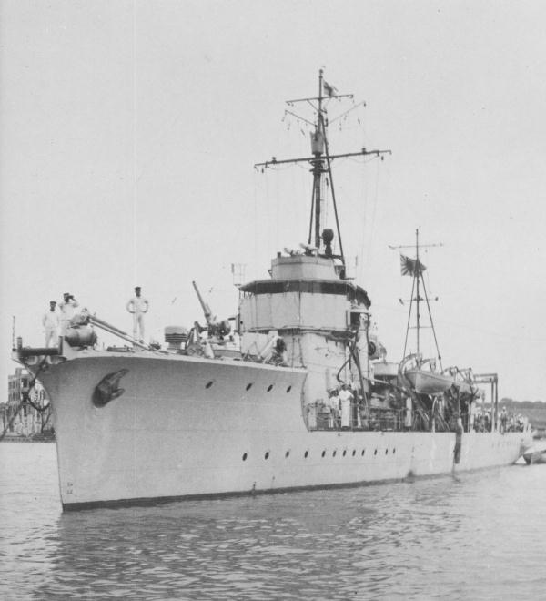 Japanese minelayer "Nasami", at China?.